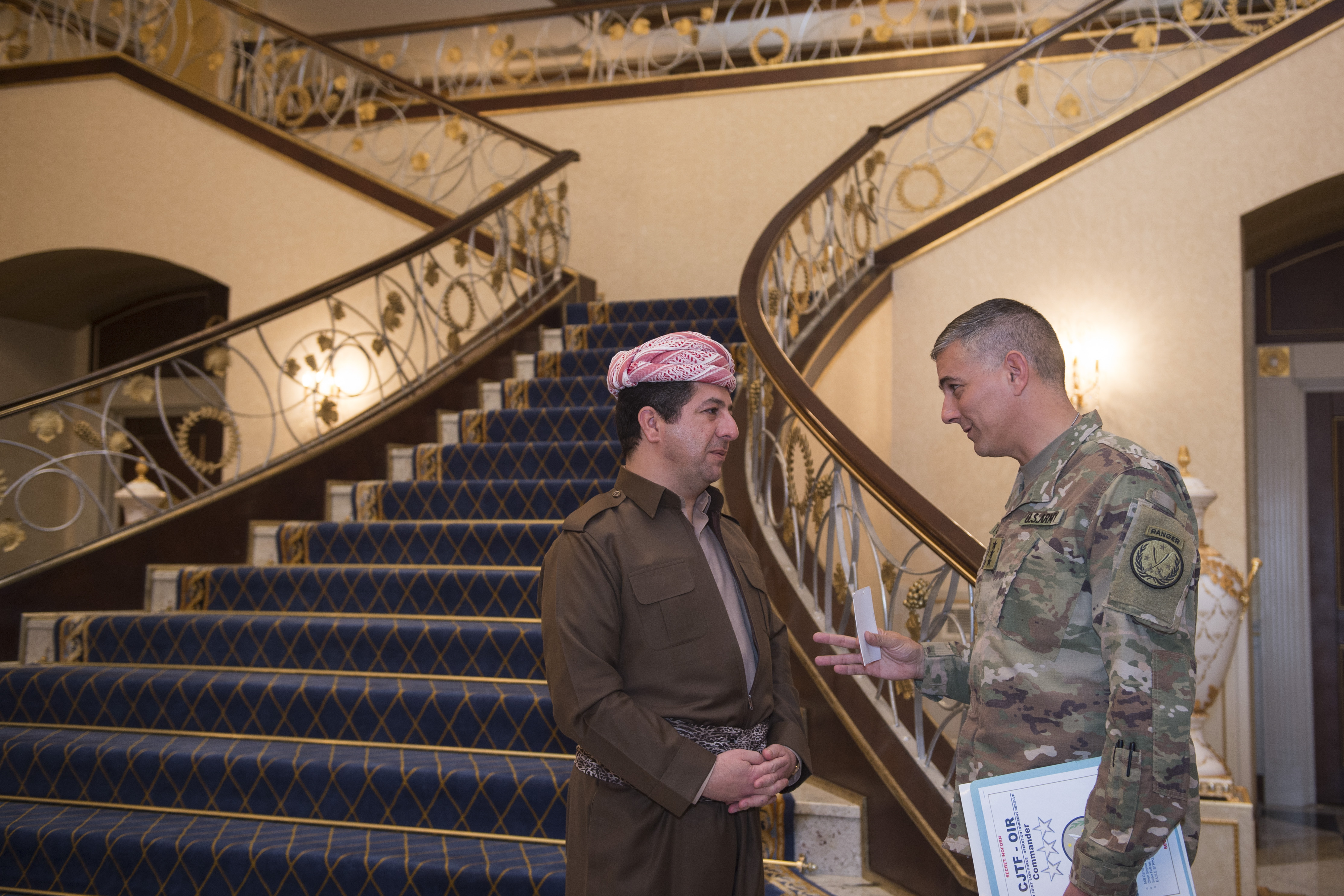 U.S. Army Lt. Gen. Stephen Townsend, commander of Combined Joint Task Force-Operation Inherent Resolve, talks with Masrour Barzani, chancellor of the Kurdistan Regional Security Council, in Erbil, Iraq, Oct. 23, 2016. (DoD photo by U.S. Air Force Tech. Sgt. Brigitte N. Brantley)